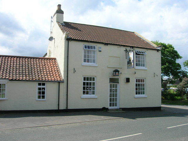 The Ox Inn, Lebberston